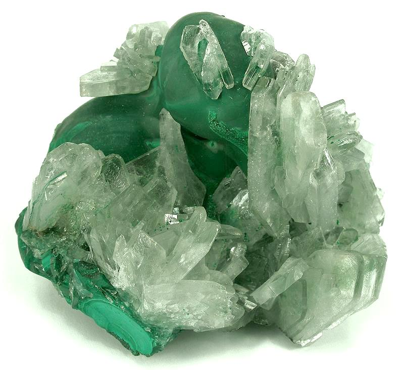 Baryte, Malachite Locality: Shangulowé Mine, Kambove, Central area, Katanga Copper Crescent, Katanga (Shaba), Democratic Republic of Congo (Zaïre) (Locality at ) Size: small cabinet, 8.9 x 8.8 x 7.0 cm Barite (included by malachite) on Malachite Most of these specimens are either greenish barites free of matrix, or on clunks; or alternately beautiful velvety malachite matrix with little smears of barite upon them. THIS PIECE, though, has balanced aesthetics where both species are nicely formed, and in balance with one another to create a more beautiful whole. It has to be among the better ones I have seen and I do clearly remember when they came out in the late 1980s and just amazed us all. This piece has subtle-pastel colored barites to an inch, splaying out and drawing the eye into the velvety, rounded malachite core. Each species complements the other. This particular find has not been repeated since and to my knowledge remains a unique association not present at other malachite-producing localities that I can think of. I regard this specimen VERY highly as a beautiful piece, but also as a significant example from a unique find. Which is the more important depends on one's point of view, I suppose, about value in minerals. To me, they are equally important when in the same specimen.